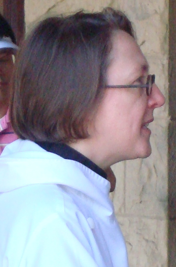 The Reverend Dr Jane Shaw at Stanford University